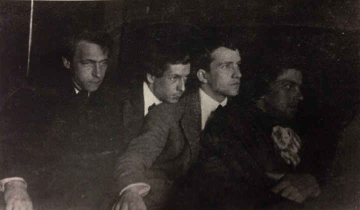 Леонид Кузьмин и футуристы